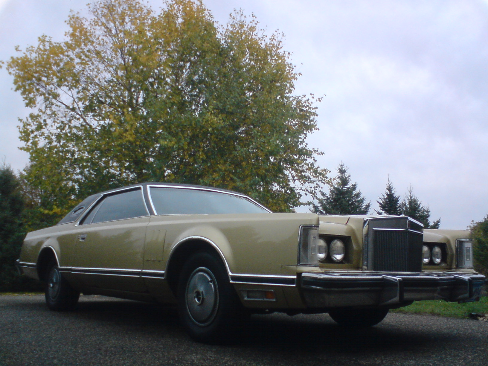 Lincoln MK V The last of the true automobiles. I would like to put this in the Wiki Lincoln Mark V page, but cannot figure out how to do it. Would someone please help me out with this. The car was just totaled by a drunk driver and I think it would be nice to see it immortalized in the database.